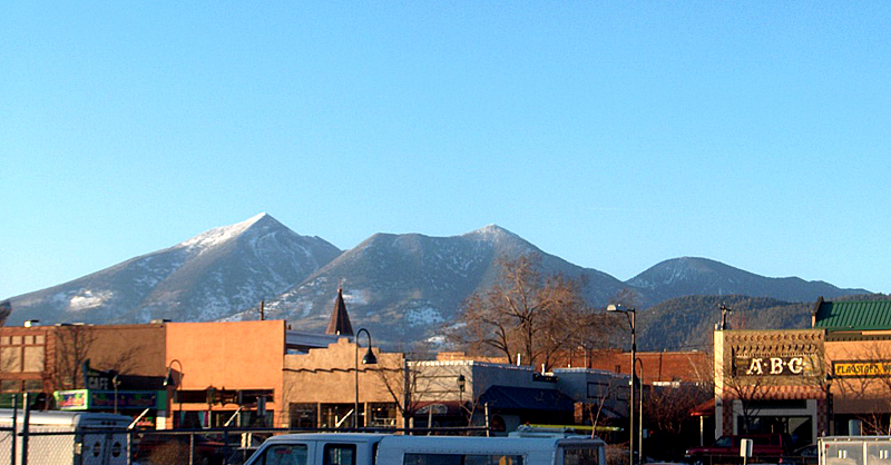 View of downtown Flagstaff on U.S. Route 66 with San Francisco Mountain in the background.